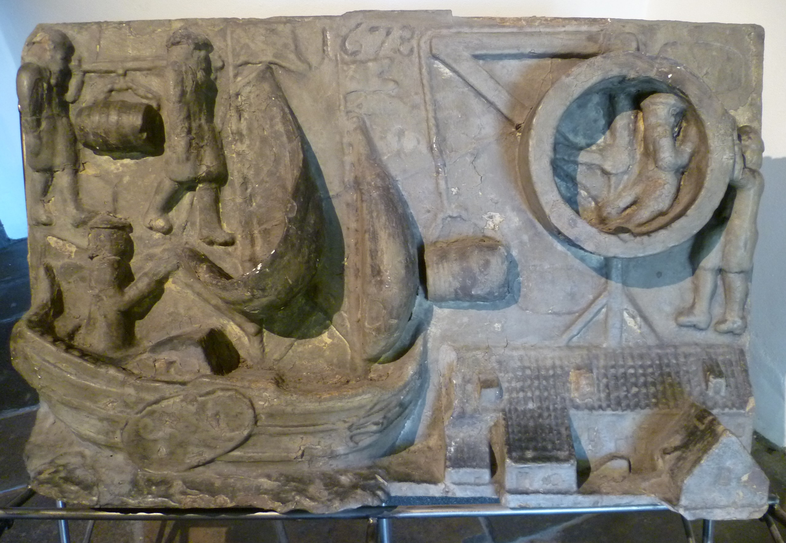 The 'Porters Stone', dated 1678, was removed from the demolished house of a wine merchant in Leith and is now displayed in Huntly House Museum, Edinburgh